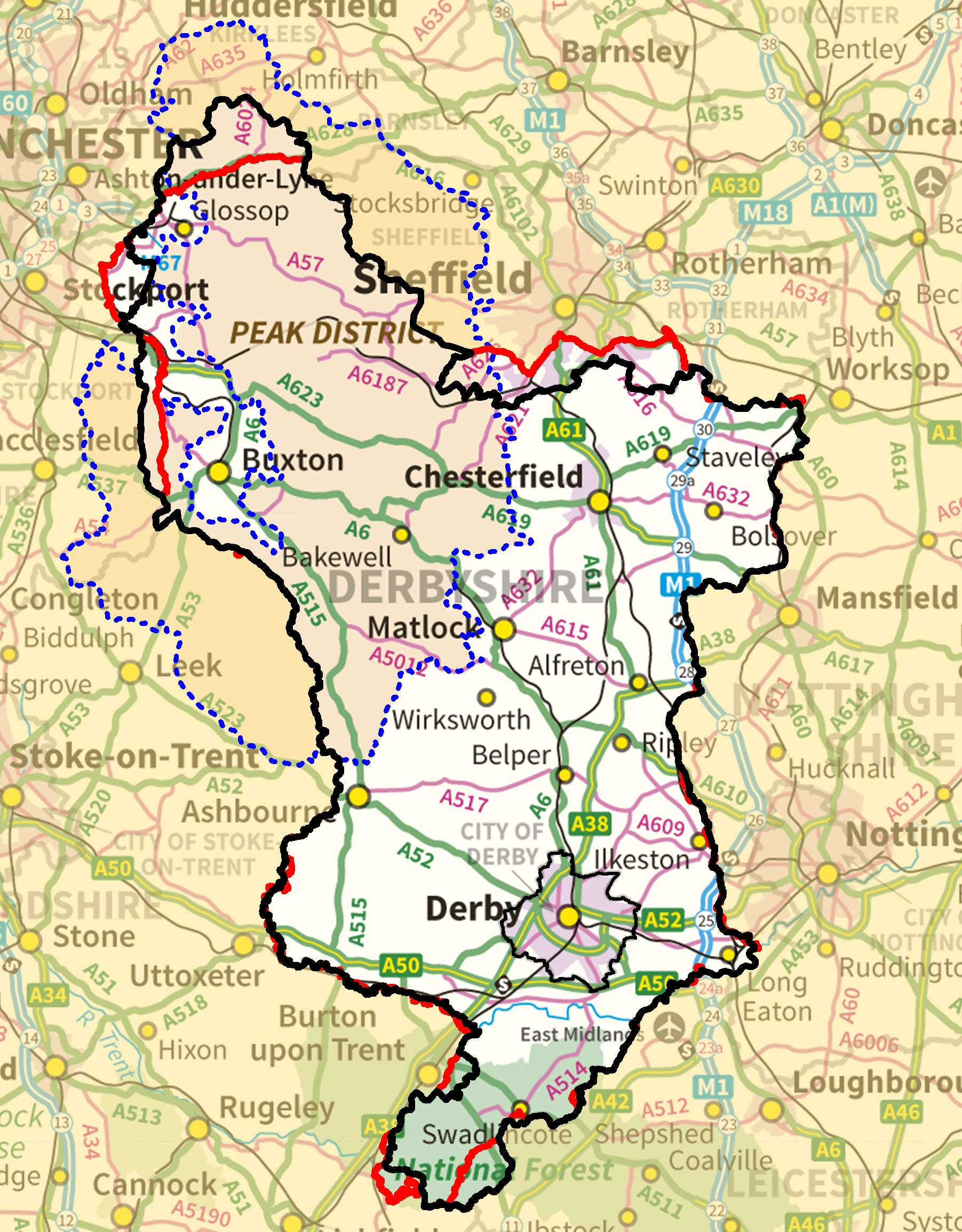 Map of Derbyshire showing modern geographic boundary (black); Watsonian vice-county (red) and Peak District boundary (dotted blue). The vice-county of Derbyshire (VC57) is an unchanging boundary definition, still heavily used for wildlife recording purposes.